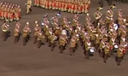 Trooping the Colour in Jordan in 2016